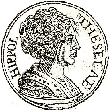 Hippolyte is the Amazonian queen who possessed a magical girdle she was given by her father Ares, the god of war.